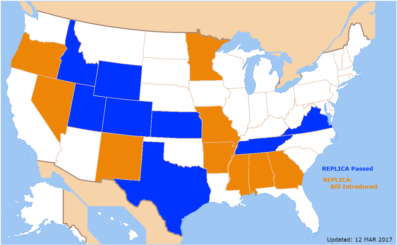 Map of the states that have adopted the Recognition of EMS Personnel Licensure Compact (Blue) or have legislation pending (orange) according to the National Registry of EMTs on 12 MAR 2017.